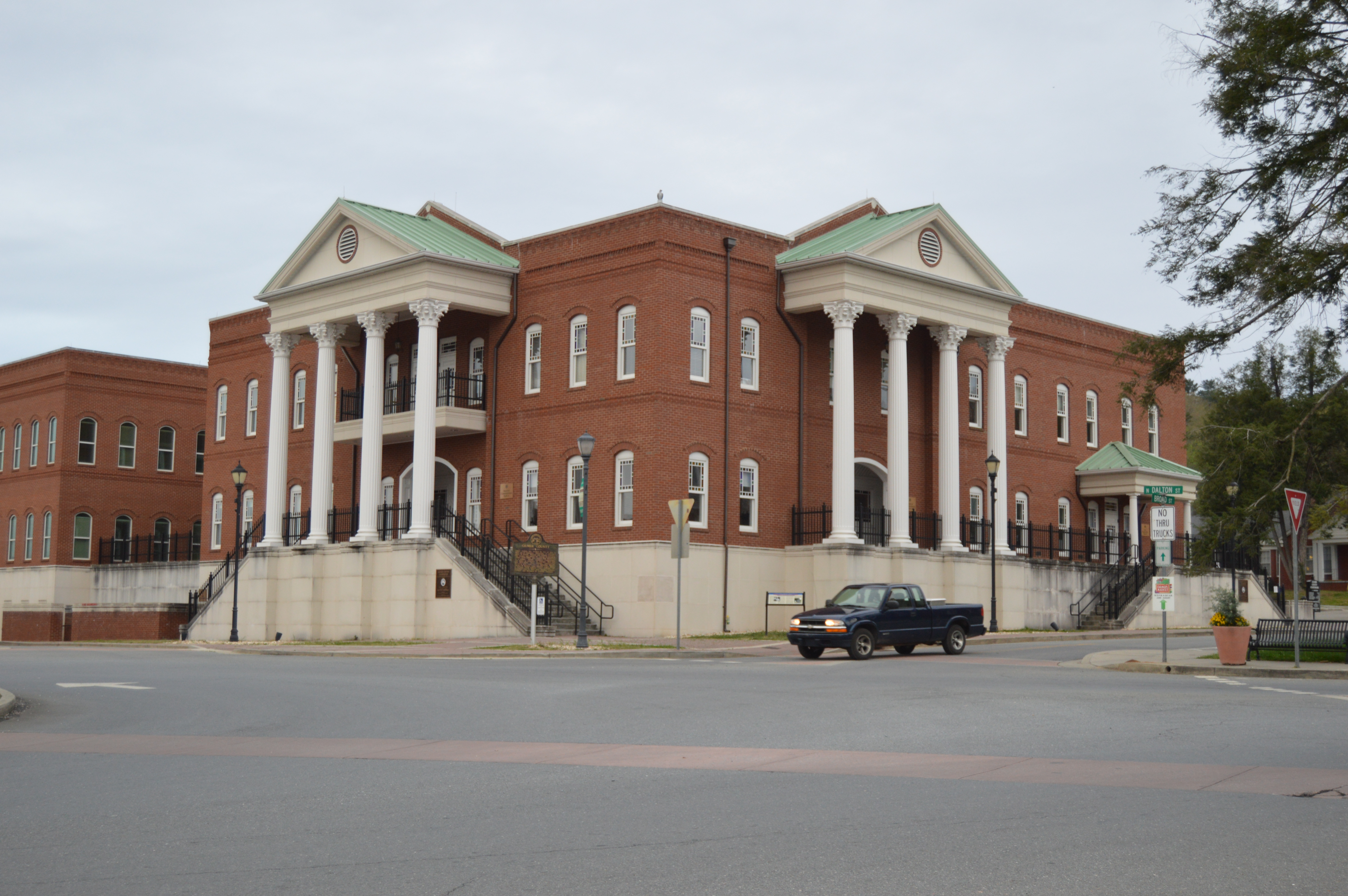 Northeastern and southeastern facades of the Gilmer County Courthouse, located on the western side of Courthouse Square in Ellijay, Georgia, United States. Built in 2008, it sits on the site of a previous courthouse that was listed on the National Register of Historic Places in 1980; although destroyed in 2008, the old courthouse officially remains on the Register.